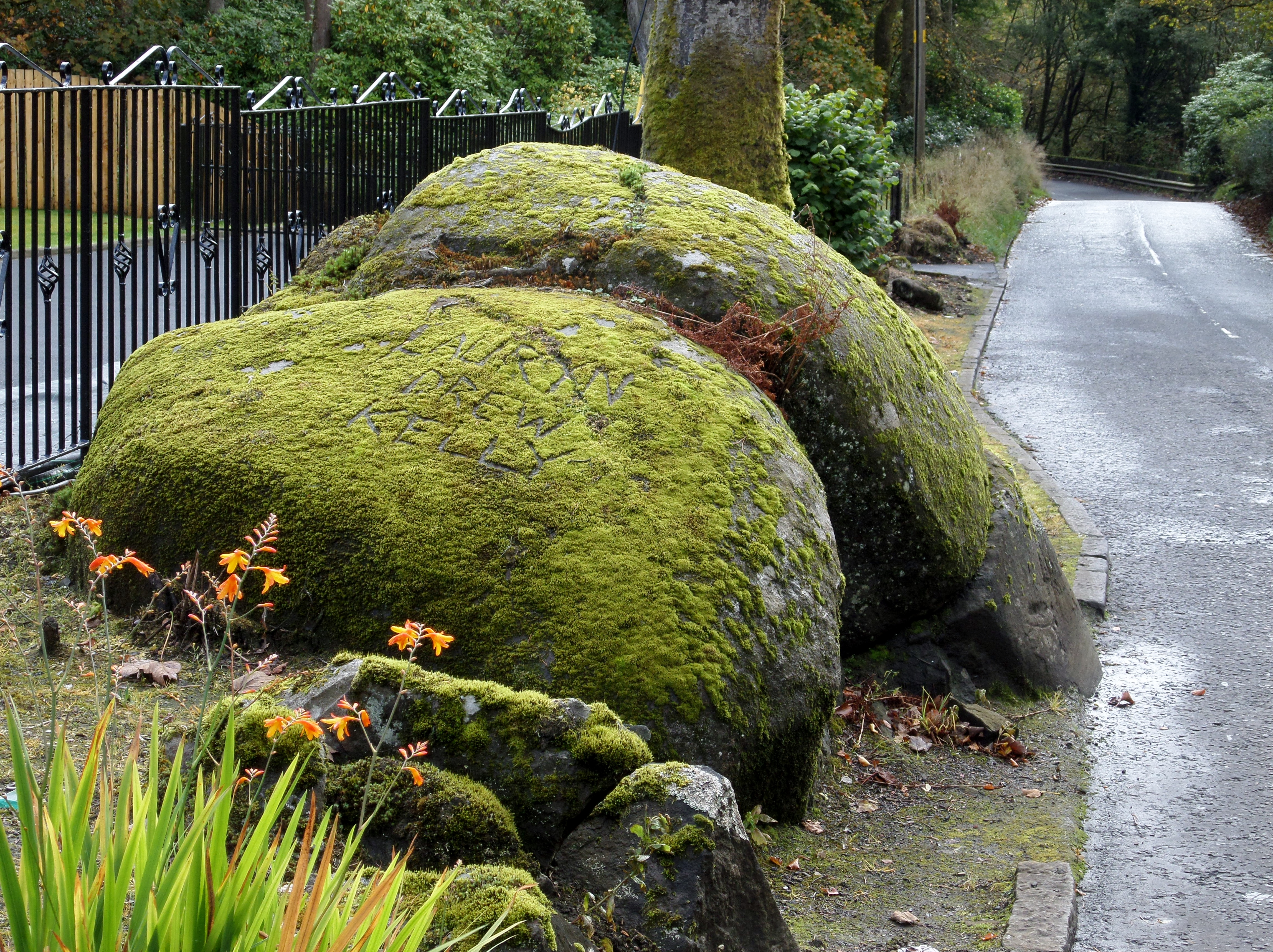 The Fortissat Stone, Covenanters meeting place, Shuttlehill near Shotts, Lanarkshire, Scotland. A conventicle was held here after the Battle of Bothwell Bridge.